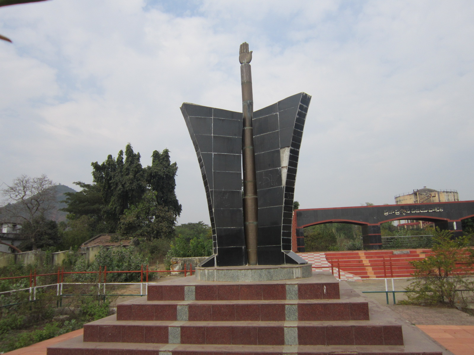 rajashera reddy,padayatra stupam